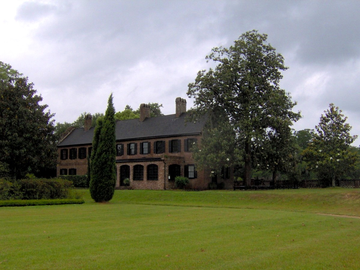 The remnants of the mansion built by Henry Middleton in the 1700's, near Charleston, South Carolina, in the southeastern United States. The main house and north flanker were burned during the U.S. Civil War, leaving only the south wing seen here. The house is now a national historic landmark and museum.